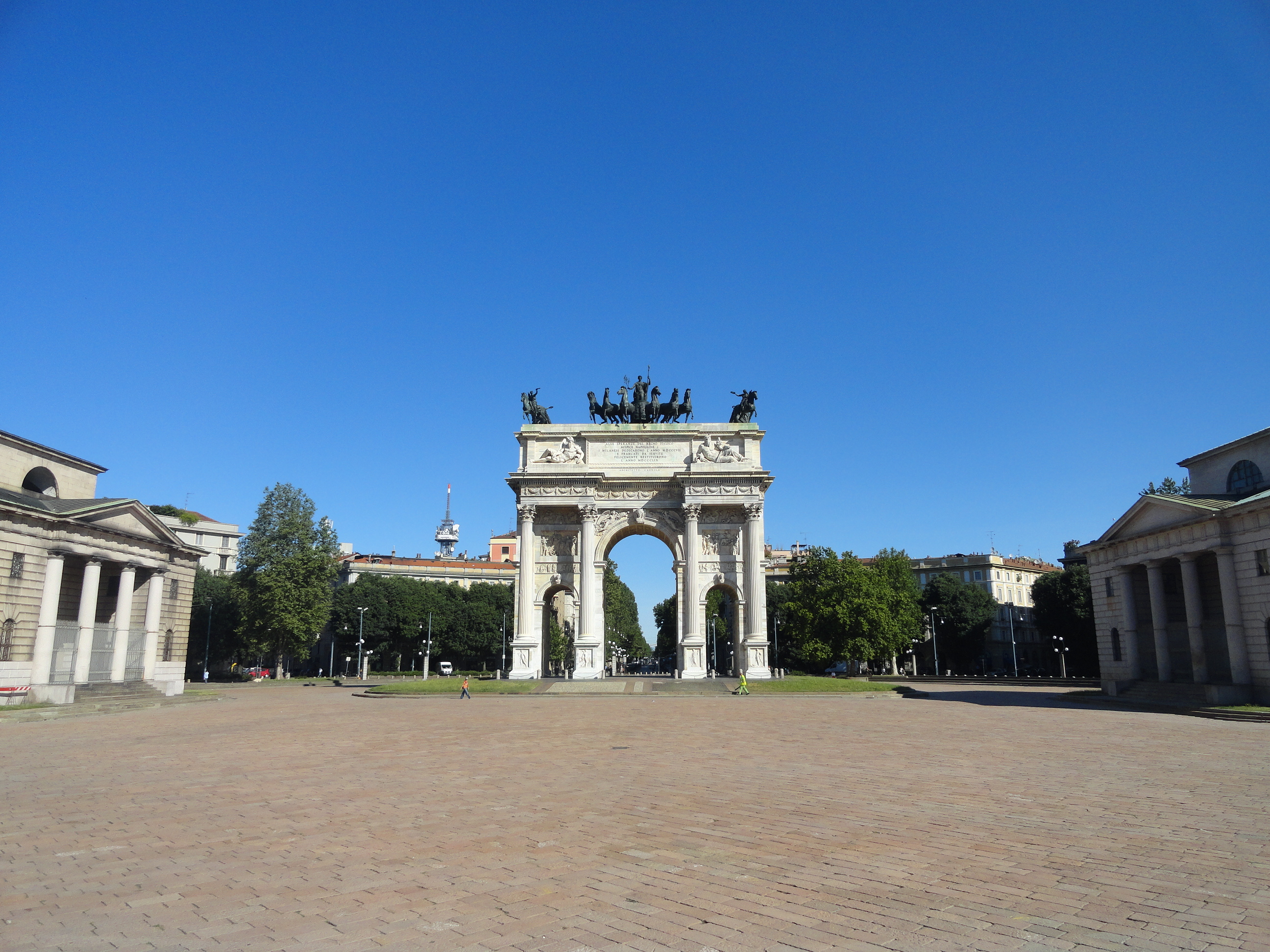 Arco della Pace or the Arch of Peace in the Piazza Sempione, Milan, Italy. By the founder of